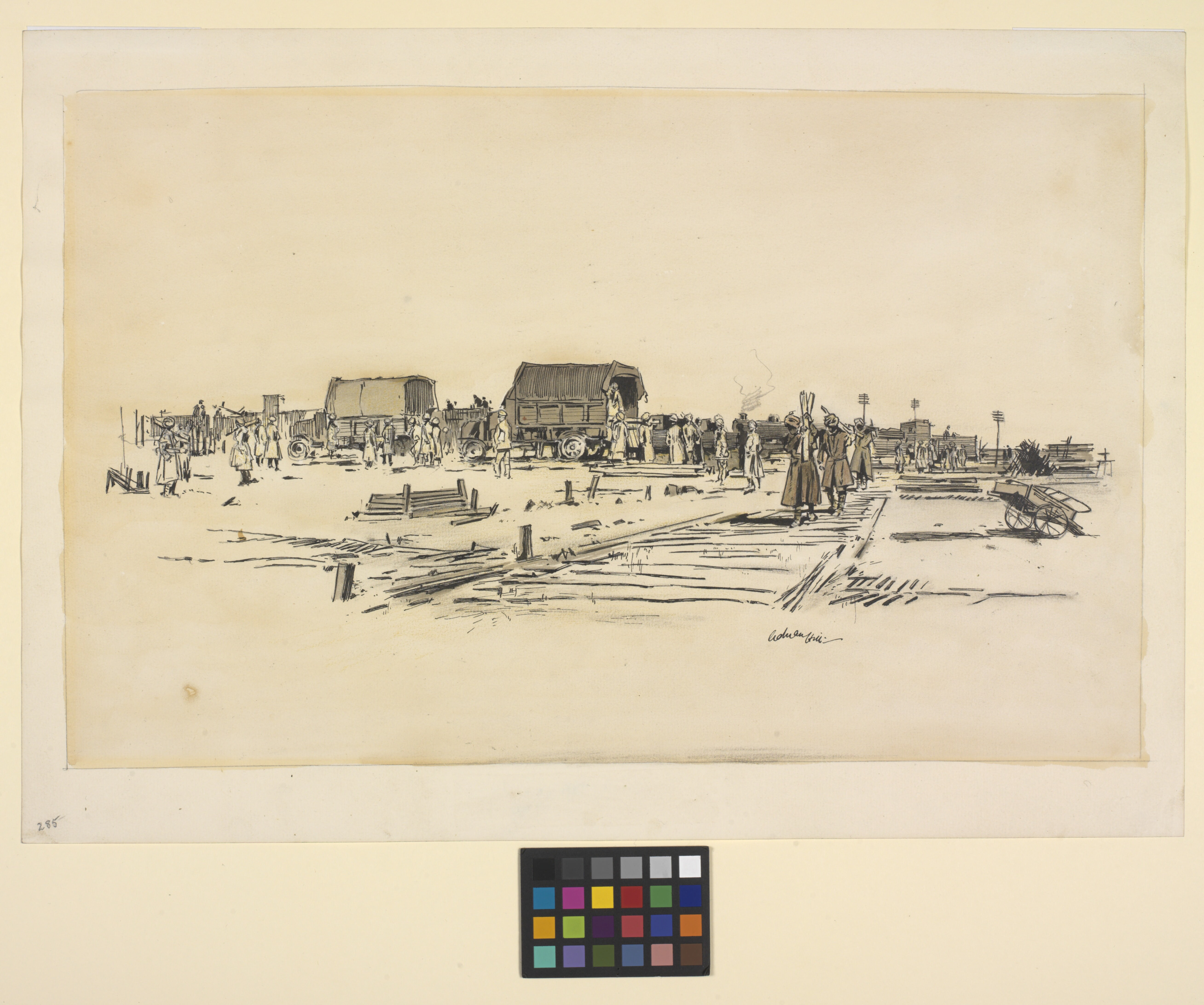 Indians Loading a Train, Pozieres Dump image: Indian troops, wearing distinctive Sikh turbans, move timber and provisions from two military trucks to a waiting train in the background. Closer to the foreground three Indian soldiers carry a few planks of wood towards the viewer. The scene is near Pozières on the Somme in northern France, behind the front line.